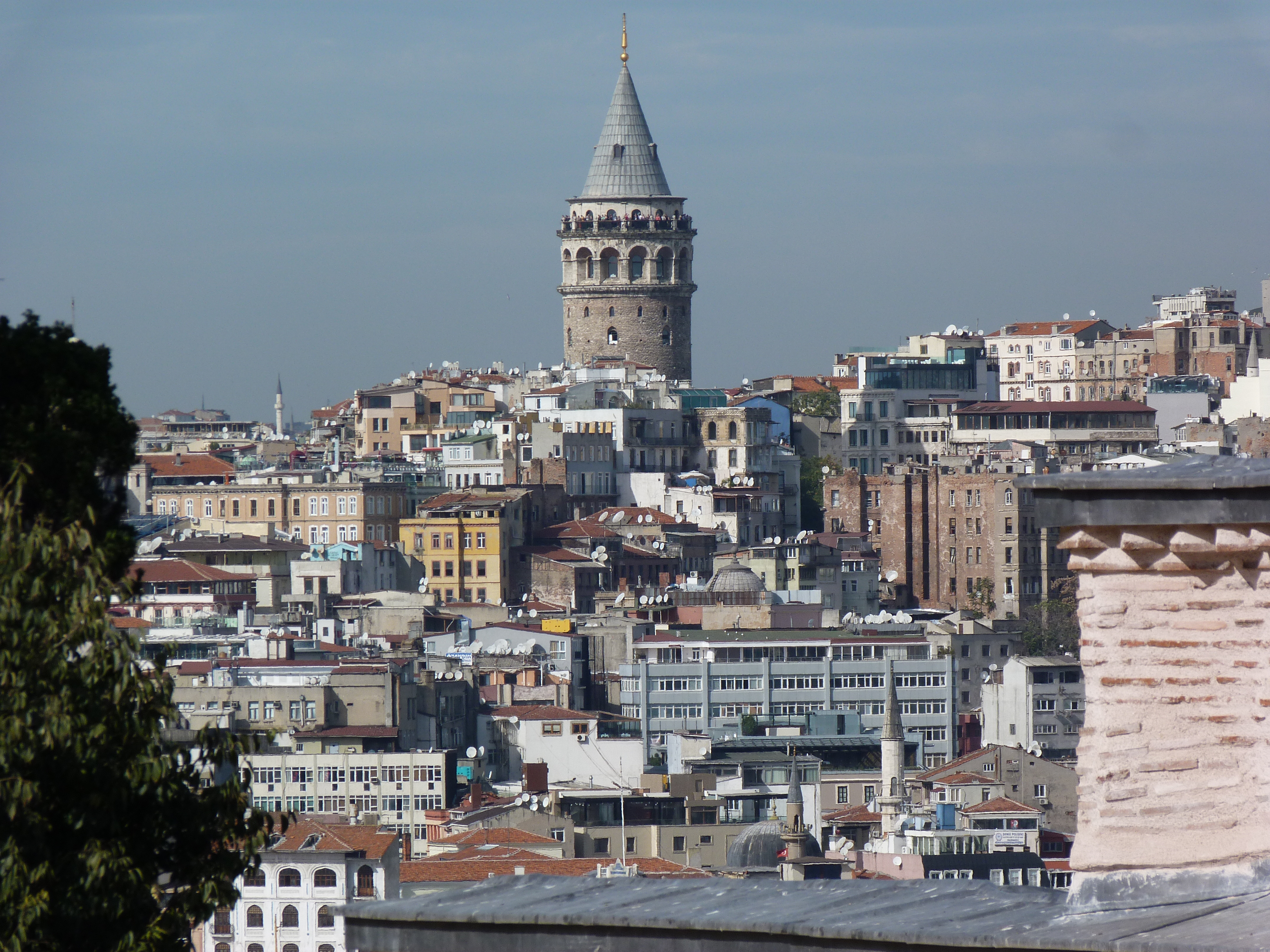 Live on the 23rd of October, 2014. Galata Tower from the Harem. Istanbul, Turkey. ©© Derzsi Elekes Andor, Budapest, 2014, Published in the Metapolisz DVD line. You are authorised to use this photo under Creative Commons – even for commercial, for profit purposes. The vid must be attributed to Derzsi Elekes Andor. All of the photos and vids in the Metapolisz DVD line are under Creative Commons and can be used even for commercial – for profit – purposes. Recommended Citation Derzsi Elekes Andor: Metapolisz DVD line